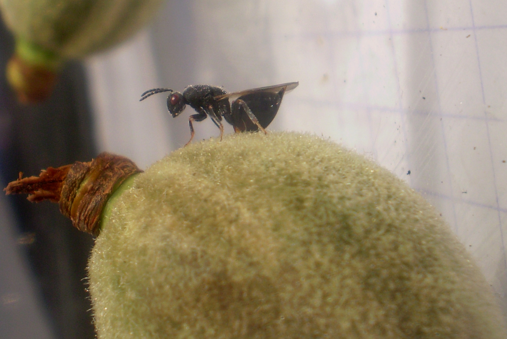 Female Eurytoma amygdali ovipositing in an almond, in captivity. It remains in this position for about 6 mn.